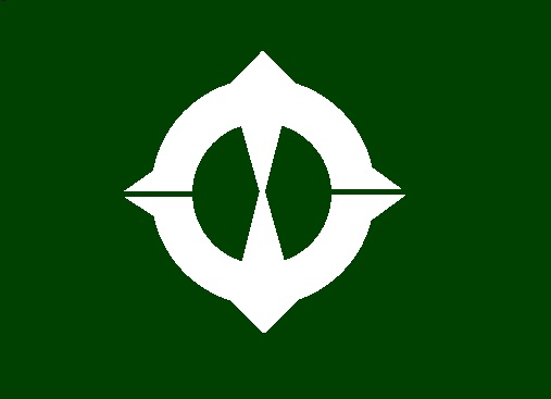 Flag of Kaneyama Fukushima